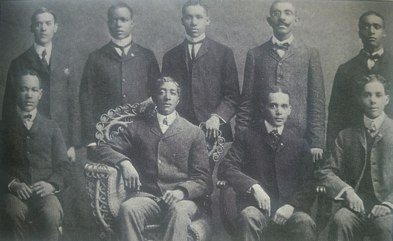 The Alpha Kappa Nu Greek Society was formed at Indiana University and Earlham College to strengthen the blacks' voice. Seated are James Knight, Howard Thompson, E.B. Keemer Sr. and Fred Williamson. Standing are John Hodge, Thomas Reynolds, Mr. Hill, R.A. Roberts and Gordon Merrill